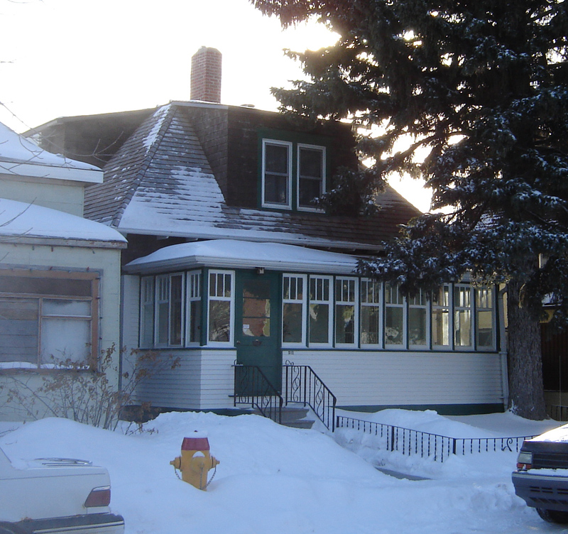 Saskatoon Heritage Society Protected Houses Gustin Residence and piano studio Nutana, Nutana SDA, Saskatoon, Saskatchewan, Canada